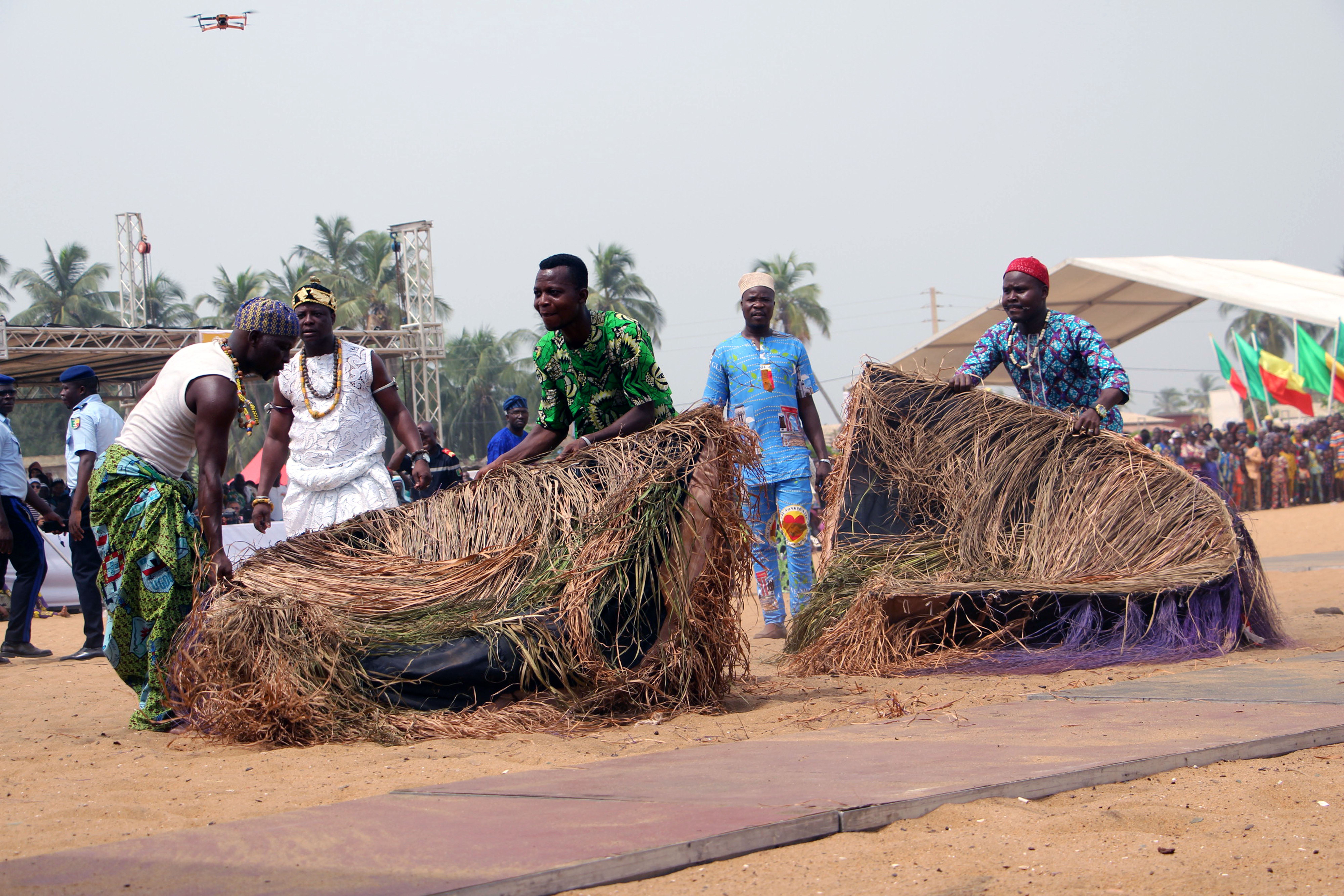 the Zangbéto demonstrate their power by dividing in half This is an image with the theme "Africa on the Move or Transport" from: Benin